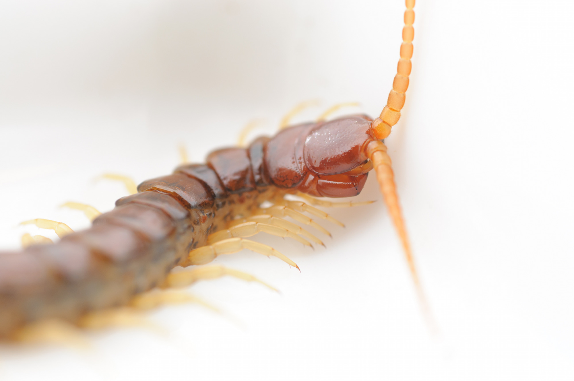 the head of Scolopocryptops sp.